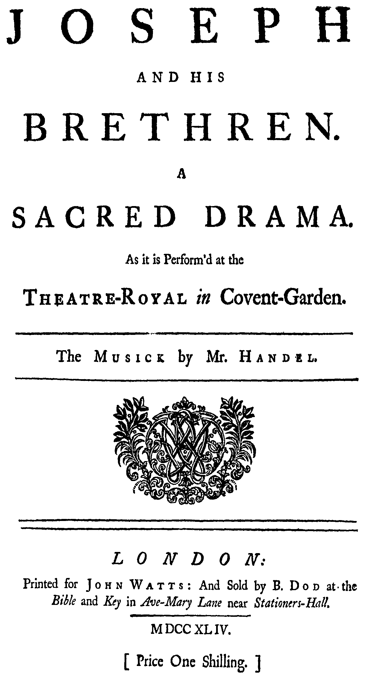 Georg Friedrich Händel - Joseph and his Brethren - title page of the libretto - London 1744